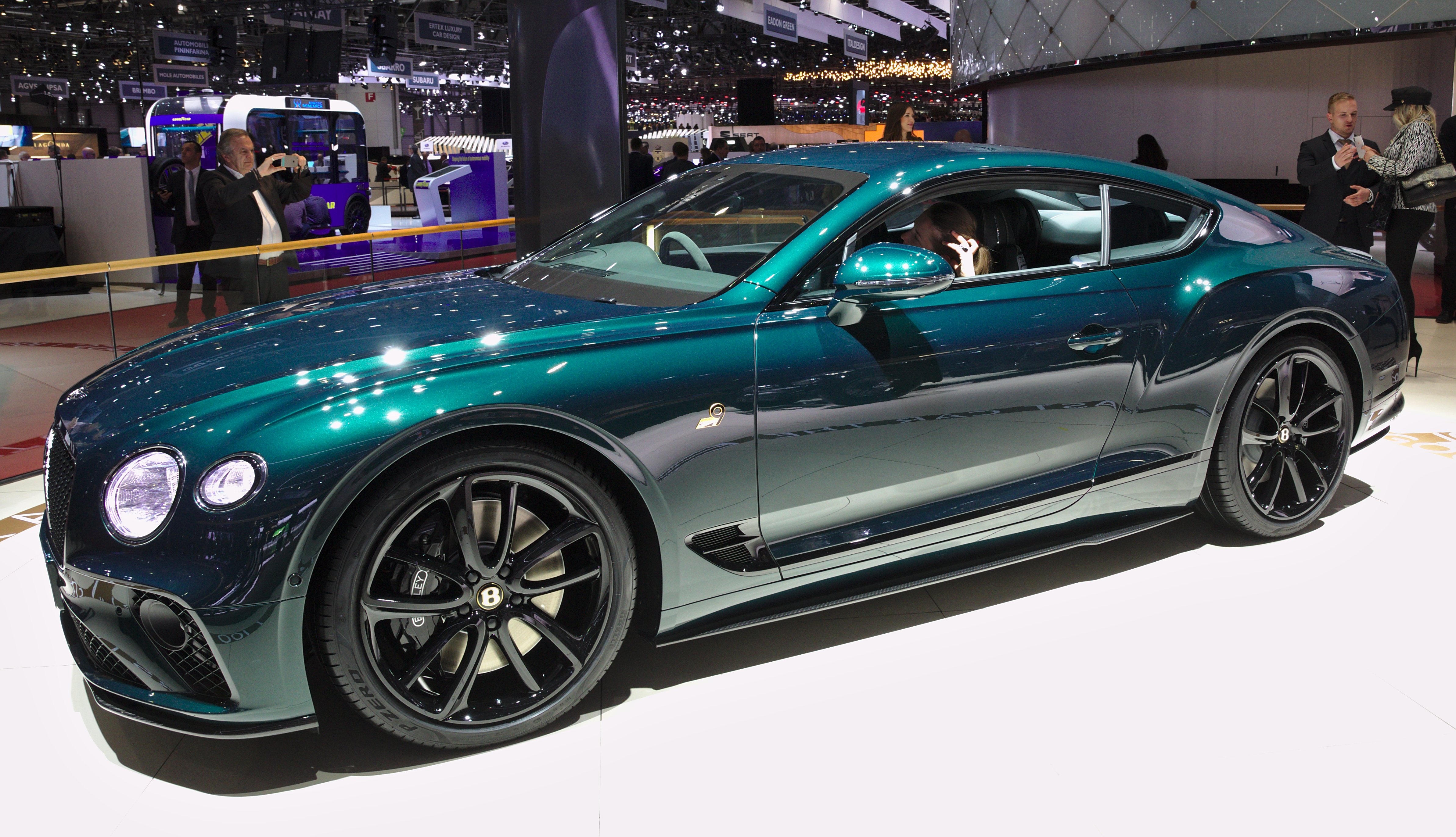 Bentley Continental GT Number 9 Edition at Geneva Motor Show 2019